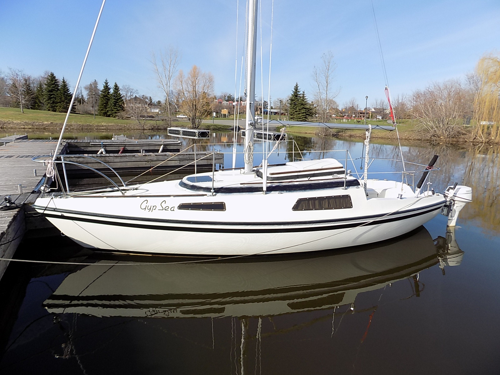 Sonic 23 sailboat named Gyp Sea